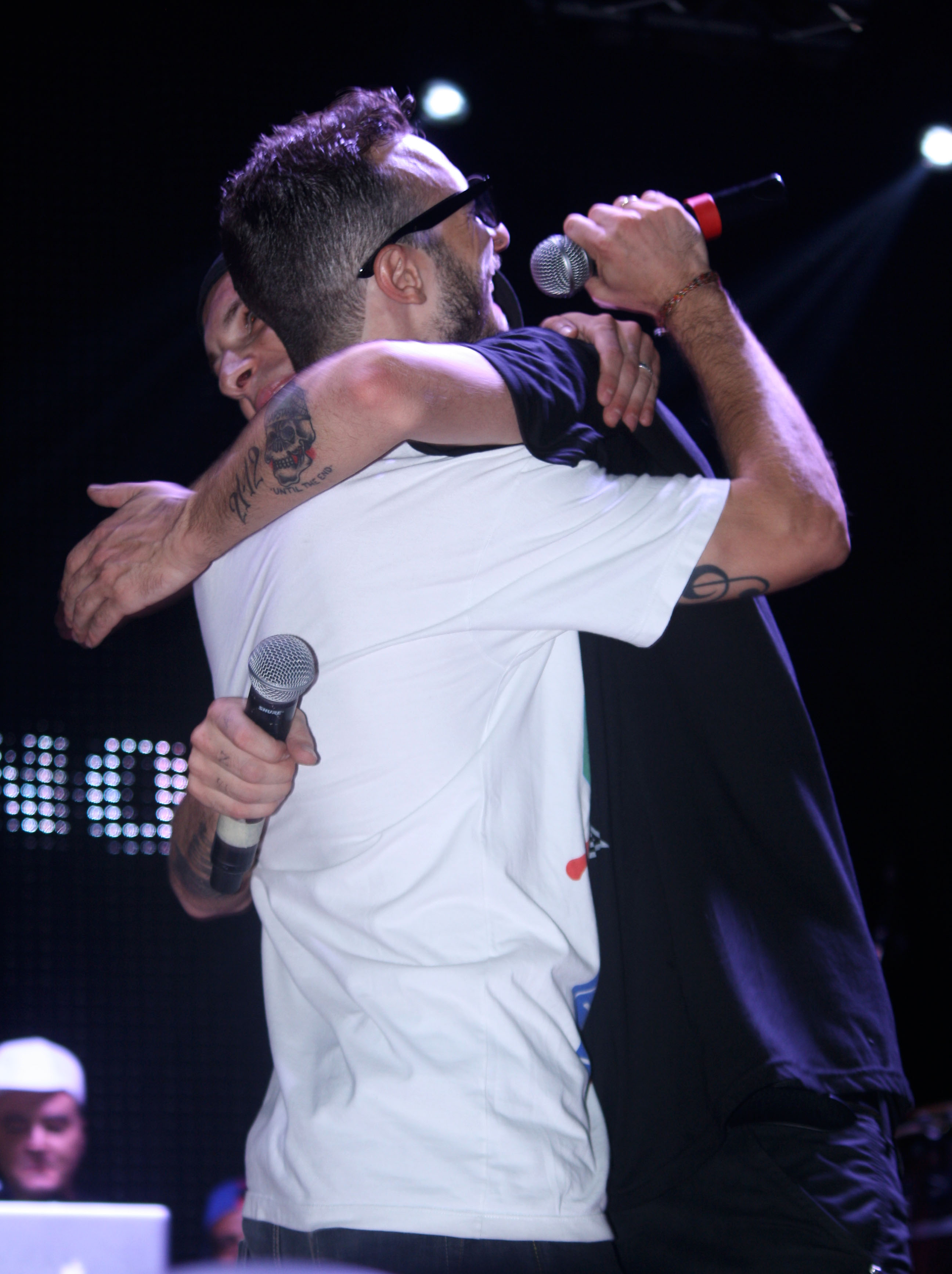 The Italian rapper Clementino while hugging the singer and brother Paolo Maccaro during a concert in Cimitile in 2013.